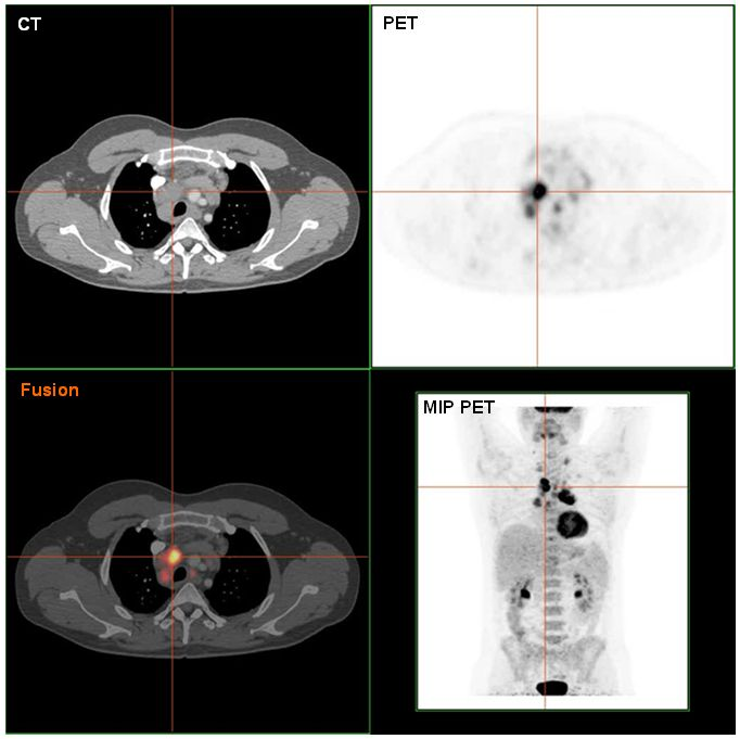 PET/CT scan of a hodgkin lymphoma, histologically validated. courtesy of "Südwestdeutsches PET-Zentrum Stuttgart am Diakonie-Klinikum" SUV-max = 22 g/ml. Patient weight: 95 kg, injected dose: 275 MBq, scan time: 75 min p.i.